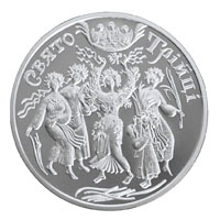 Coin of Ukraine